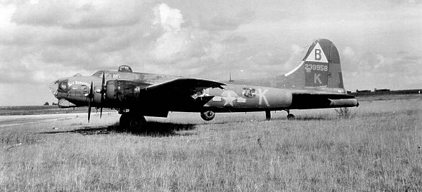 B-17G 42-39958 of the 92d Bomb Group - RAF Podington Source: National Archives via the United States Air Force Historical Research Agency, Maxwell AFB Alabama